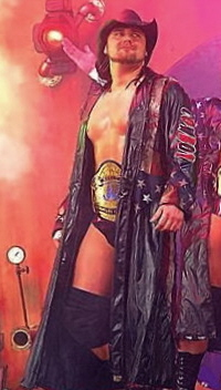 Cowboy James Storm during a TNA Impact taping